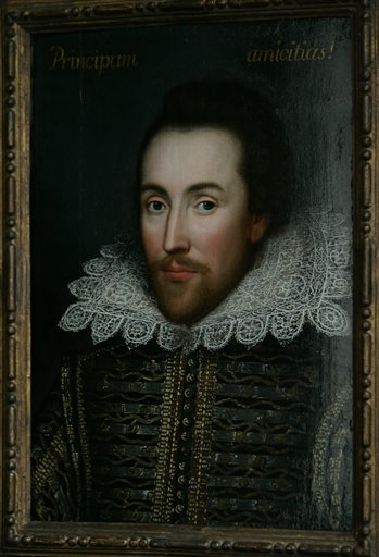 Portrait of William Shakespeare – the so called Cobbe portrait – authenticity disputed!